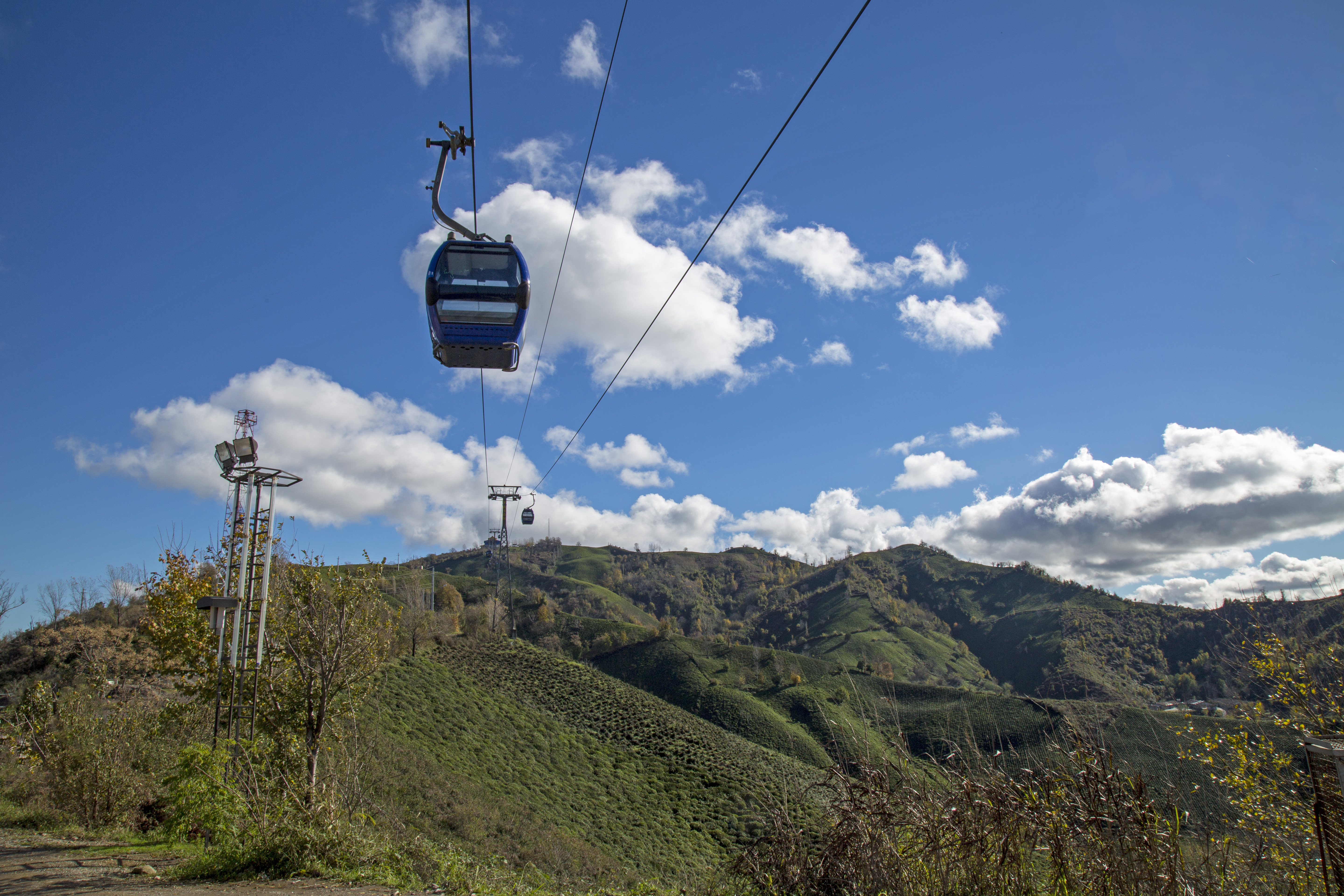 Satan's Hill and Lahijan Gondola lifts